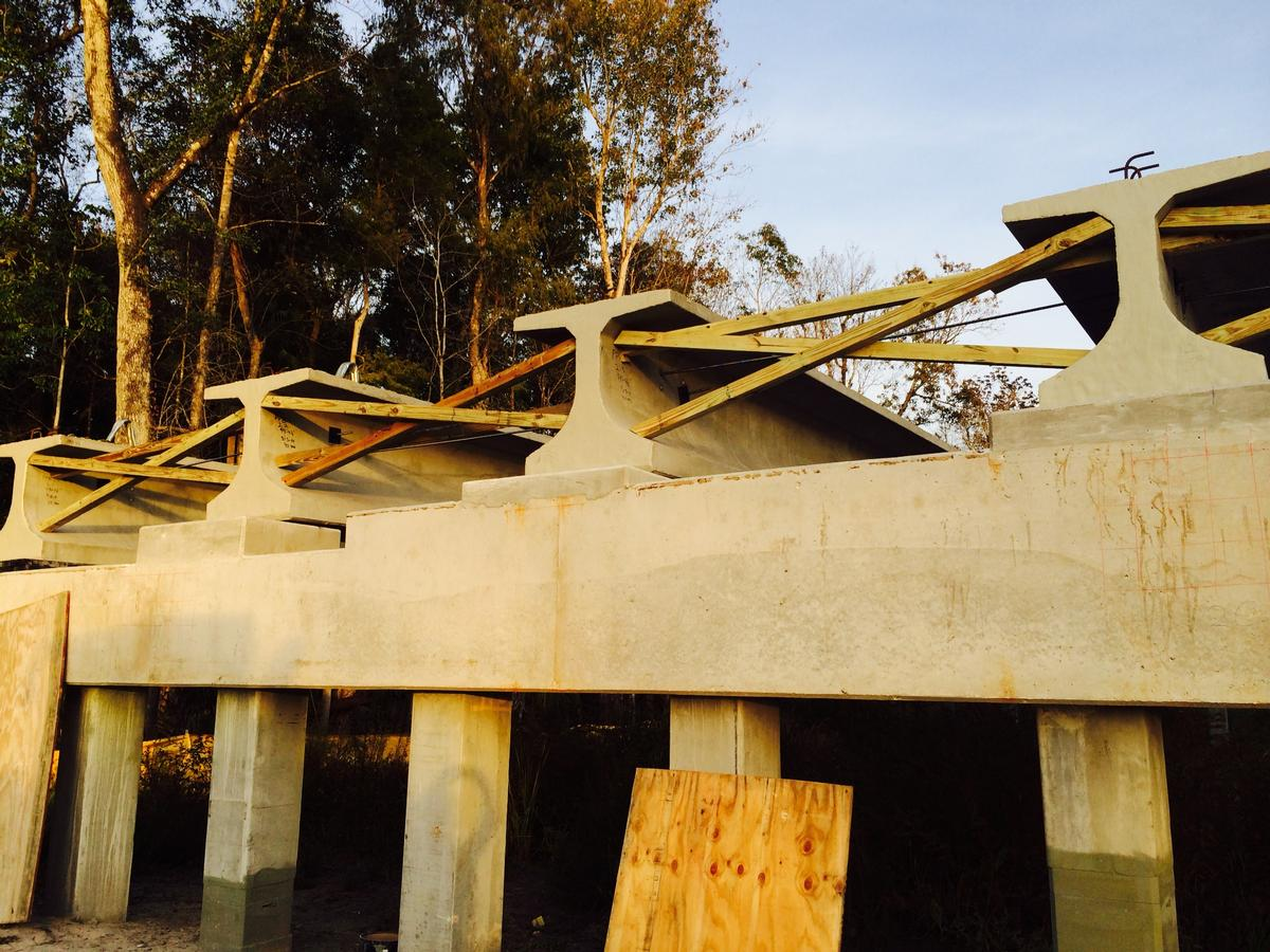 Bridge pier cross-section during construction of the 6,200-foot (1,900-metre) bridge over the Reedy Creek Mitigation Bank as part of the Poinciana Parkway in Polk and Osceola Counties in Florida. The bridge crosses mostly wetland and opened to traffic in April 2016. See Florida State Road 538 for details on the reasons for constructing the long bridge.